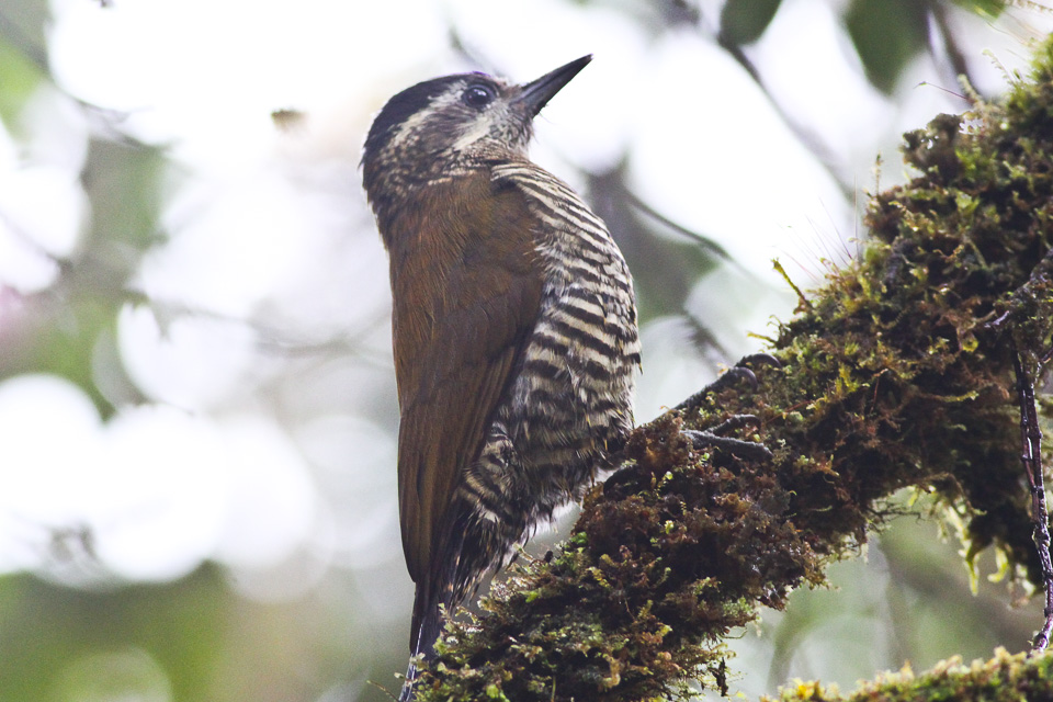 Purace National Park,Cauca